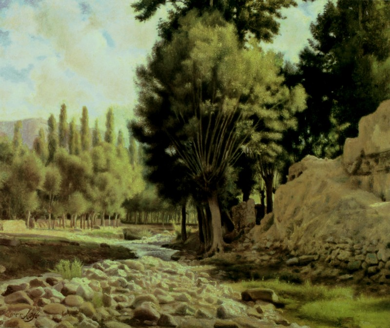 Damavand